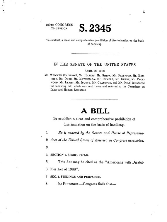 Americans with Disabilities Act of 1988, S. 2345 "A Bill to establish a clear and comprehensive prohibition of discrimination on the basis of handicap"